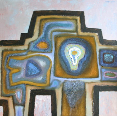 painting by dutch artist marius de leeuw (1915-2000)